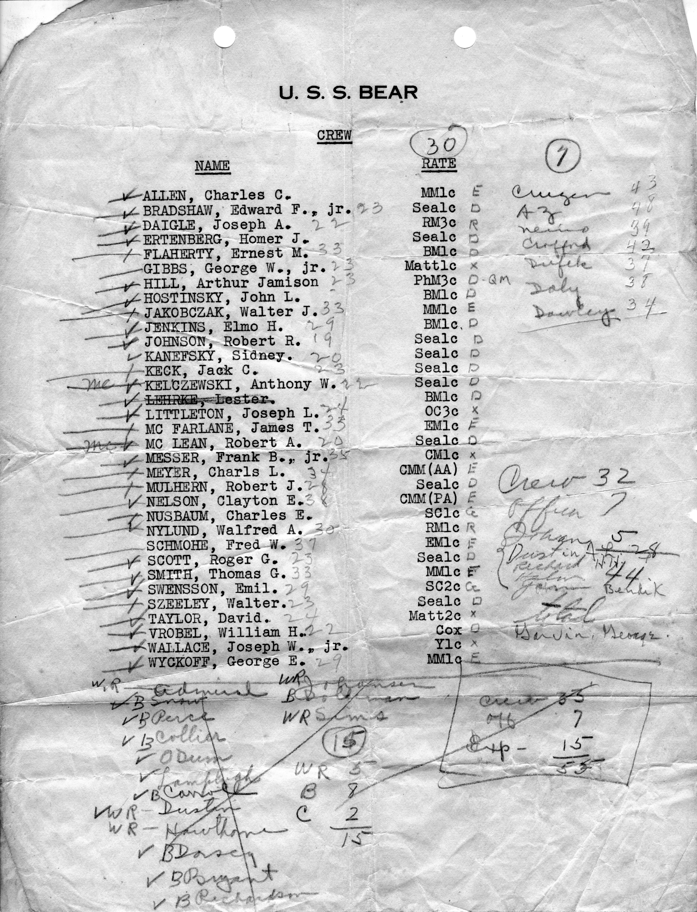 Corpsman list of crew members on the USS Bear for the 1939-1940 expedition.